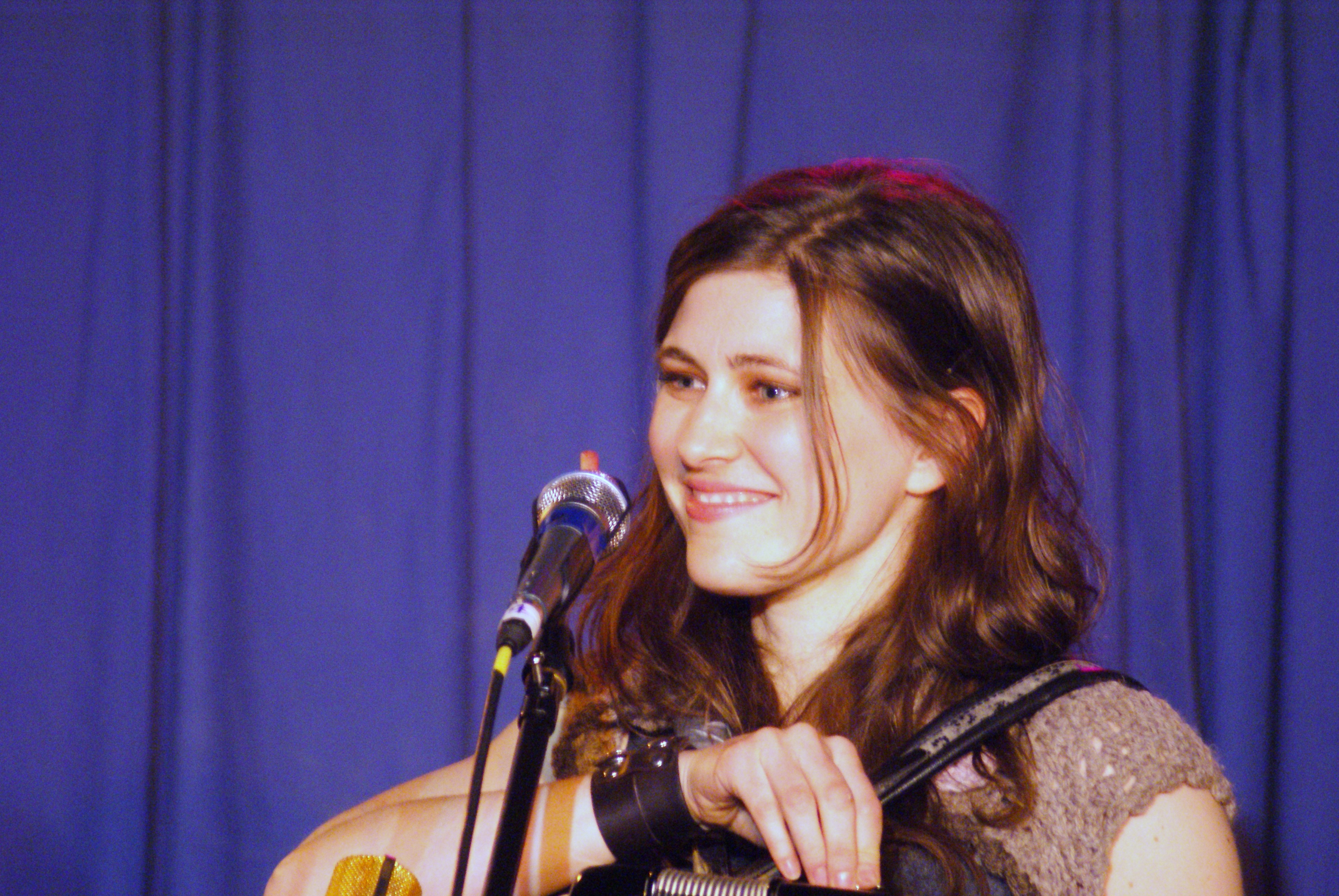 Ruth Moody performs in Ireby, England, on May 24 2008.